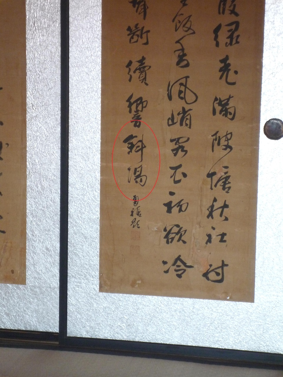 Shayoh Room of Shayoh House